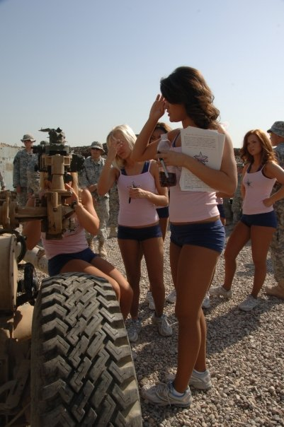 Cheerleaders are given a tour before putting on a show for U.S. Soldiers.